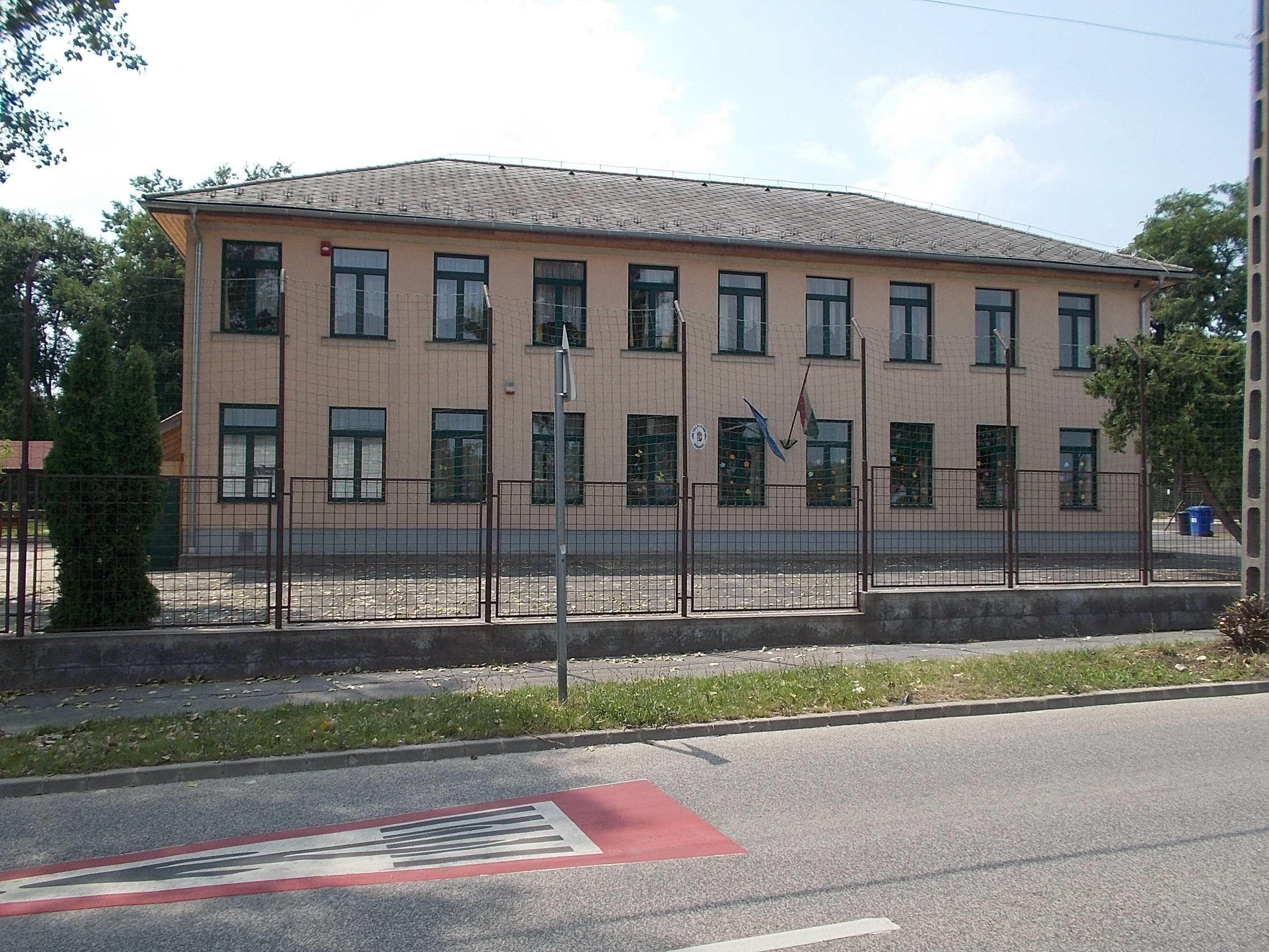 Czimra Gyula Elementary School. - Kép Street, Rákoshegy, Budapest District XVII.